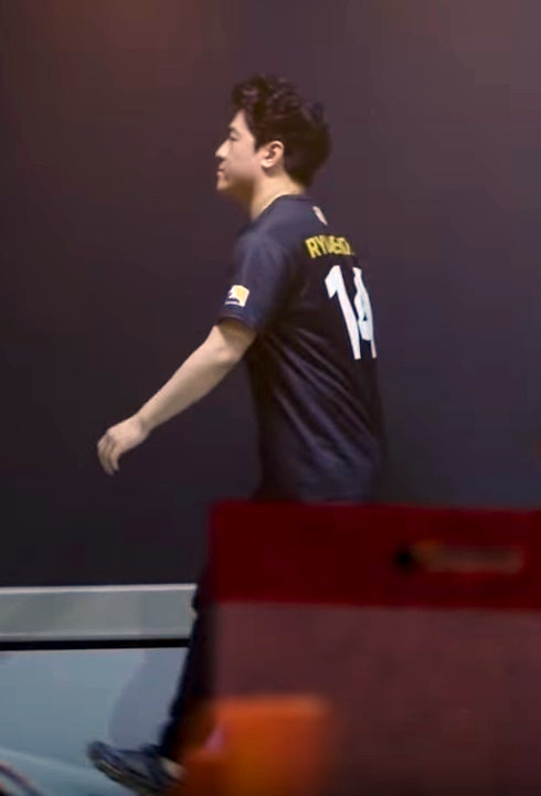 Ryu "ryujehong" Je-hong on stage at an Overwatch League match.